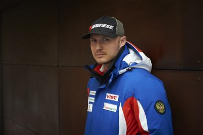 Александр Хорошилов